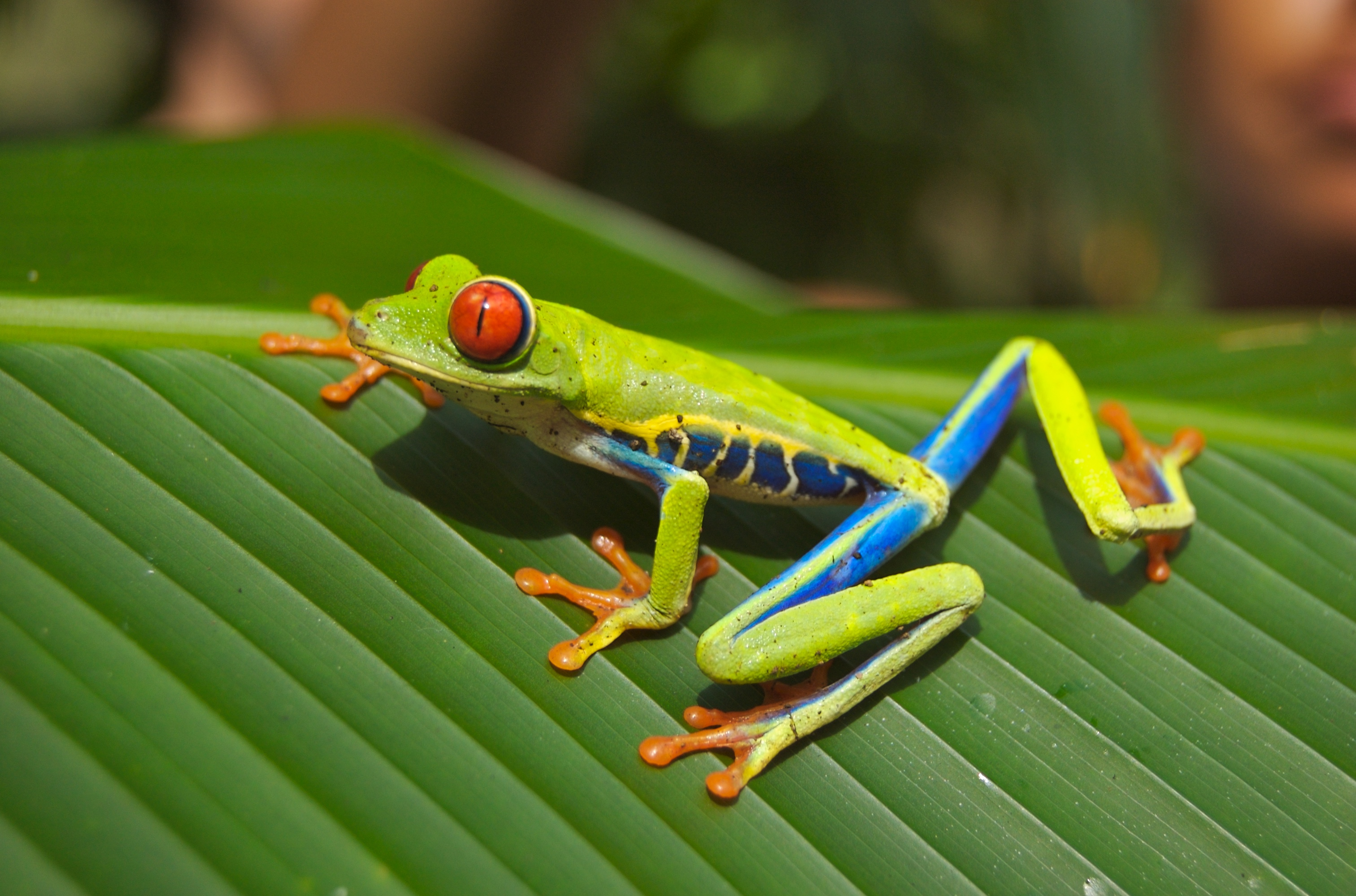 Red-eyed Tree Frog (Agalychnis callidryas), photographed near Playa Jaco in Costa Rica